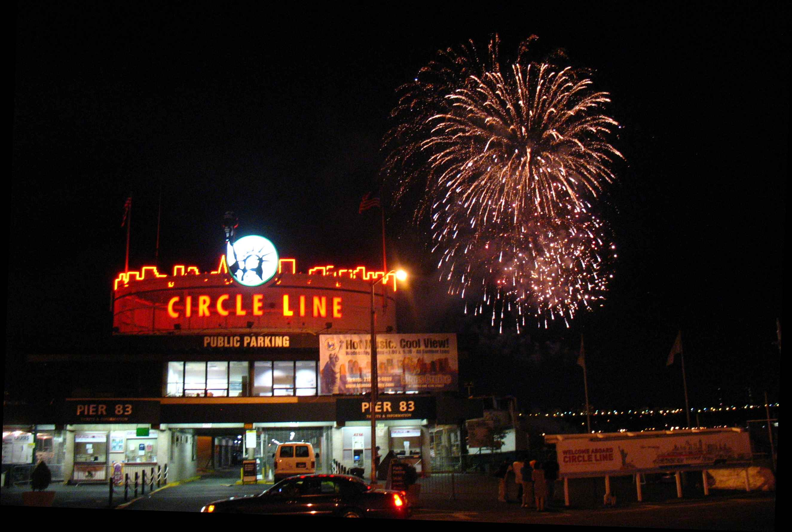 Fireworks at Circle Line Sightseeing Cruises on the Hudson River waterfront in New York City on July 13, 2006.